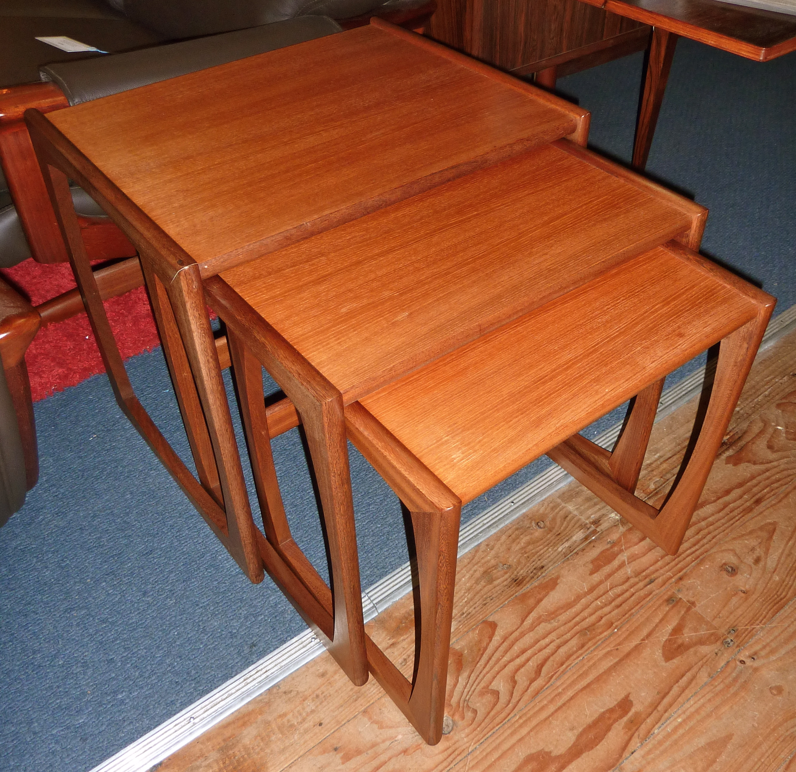 English G Plan Teak and Afrimosa Nest of 3 Tables